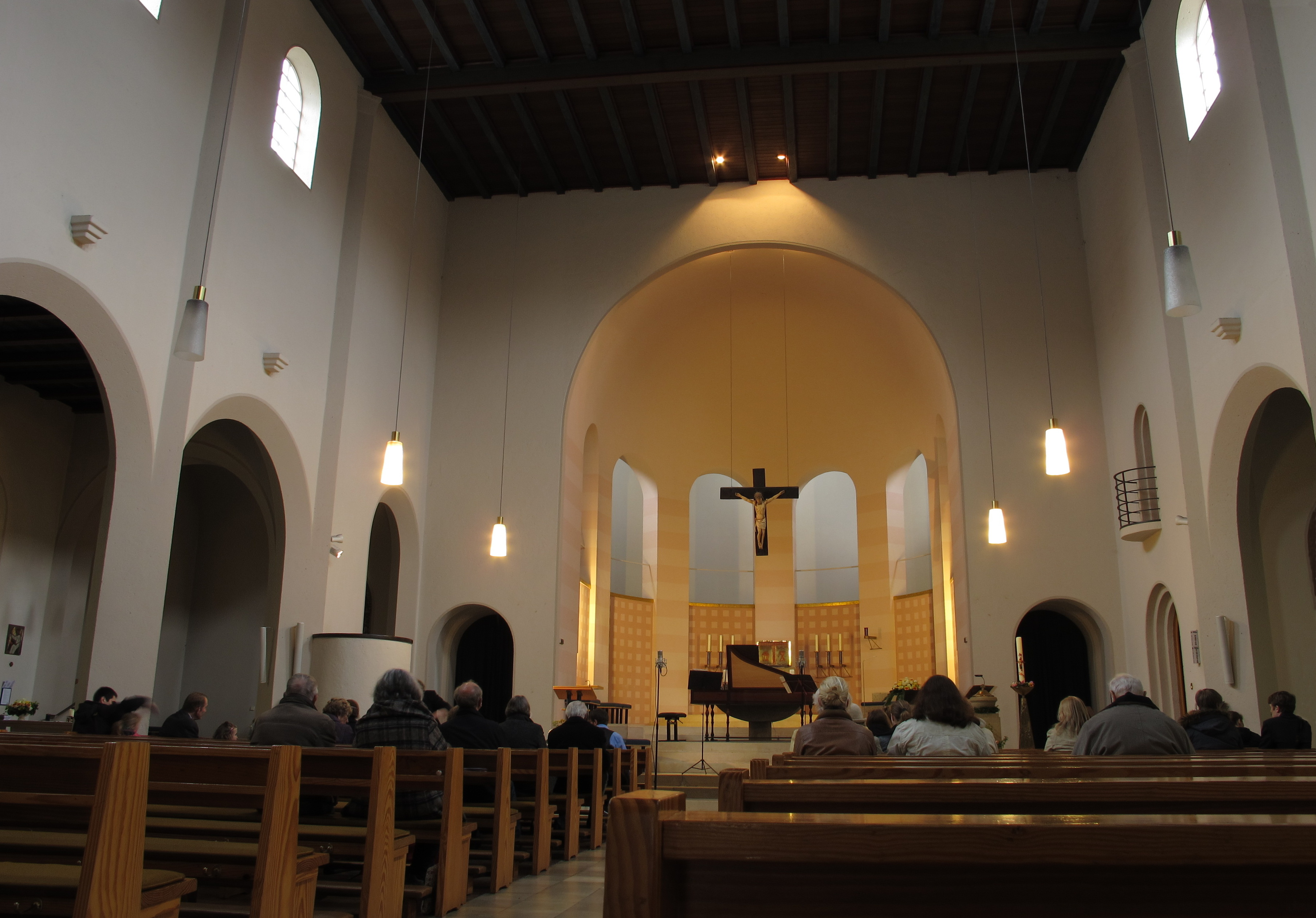 St. Antonius (Hannover, Lower Saxony, Germany) - Interior view